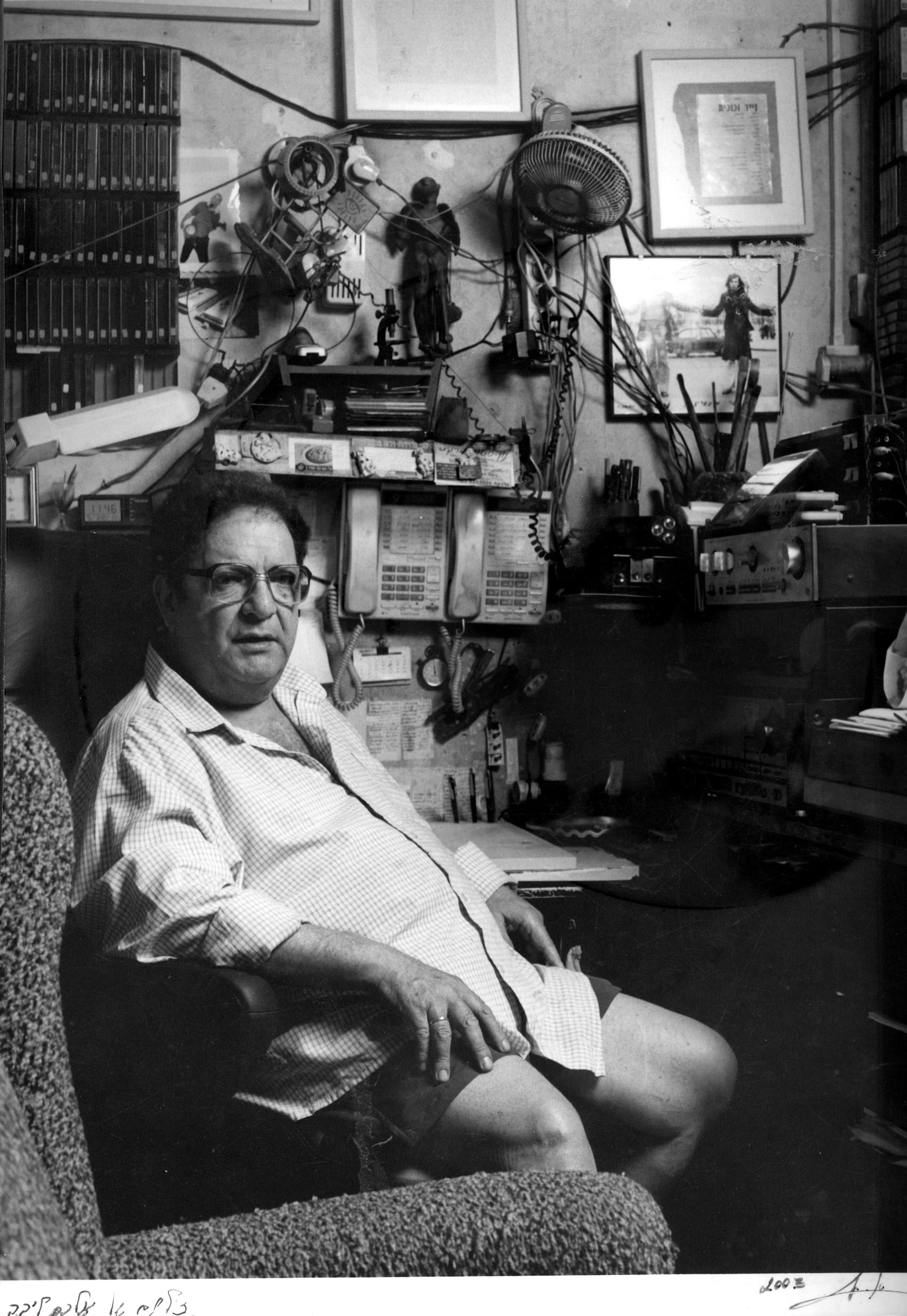 Raffi Lavie (2003) in his home in Tel Aviv. Photographed by Alex Levac. This photo was laminated and had been used as a placement by the Lavie family.